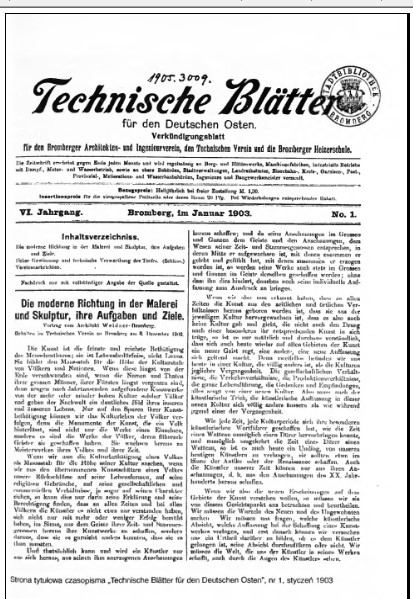 Frontapage Technische Blätter